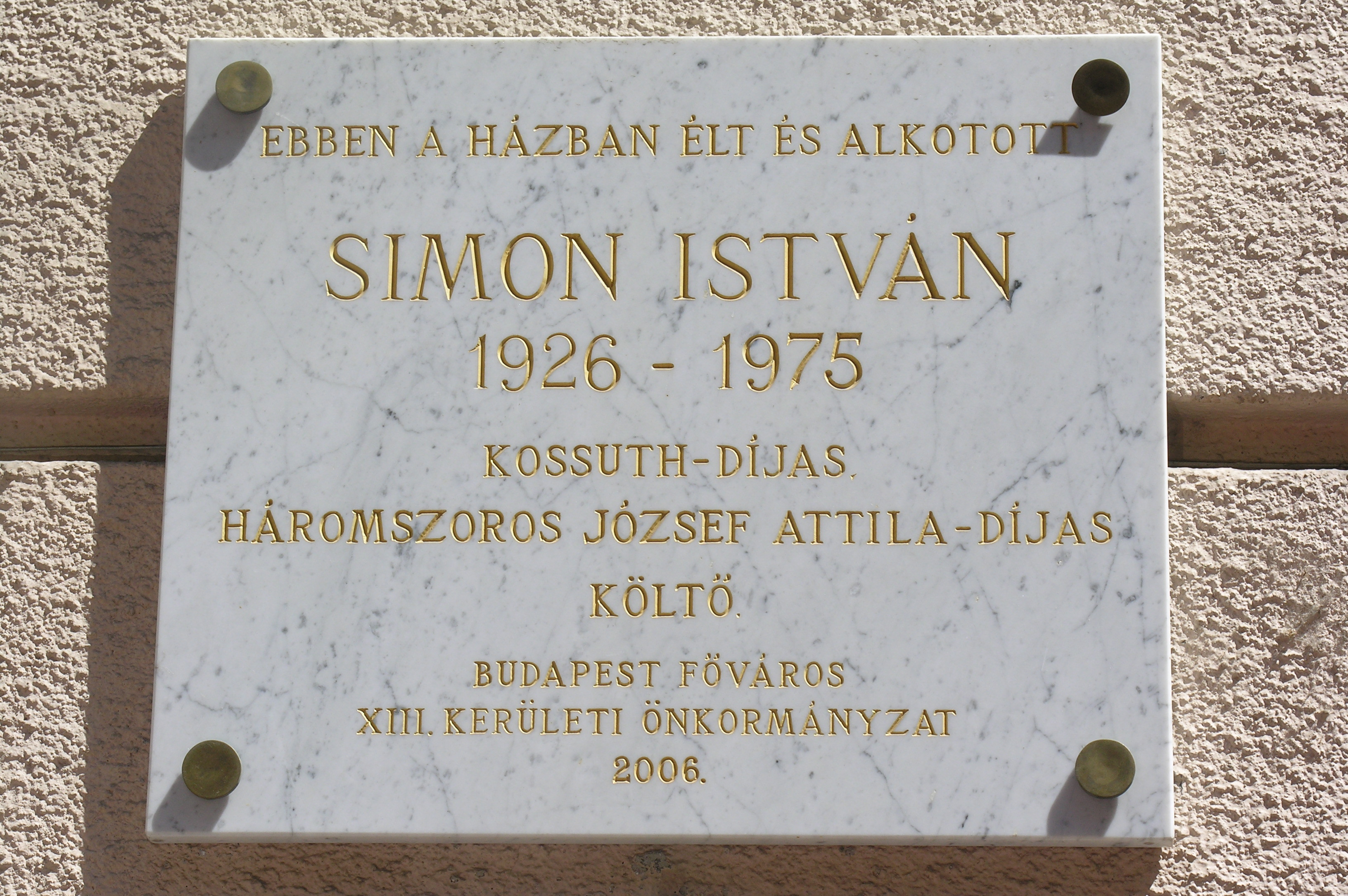 Commemorative plaque of the poet István Simon in Budapest District XIII, Raoul Wallenberg Street No 7